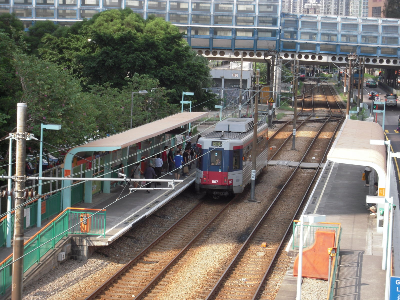 LRT Siu Lun Stop, MTR HK